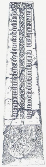 Gravestone of Herman Trulsson (died 1503), a roman catholic bishop of Hamar diocese in Norway